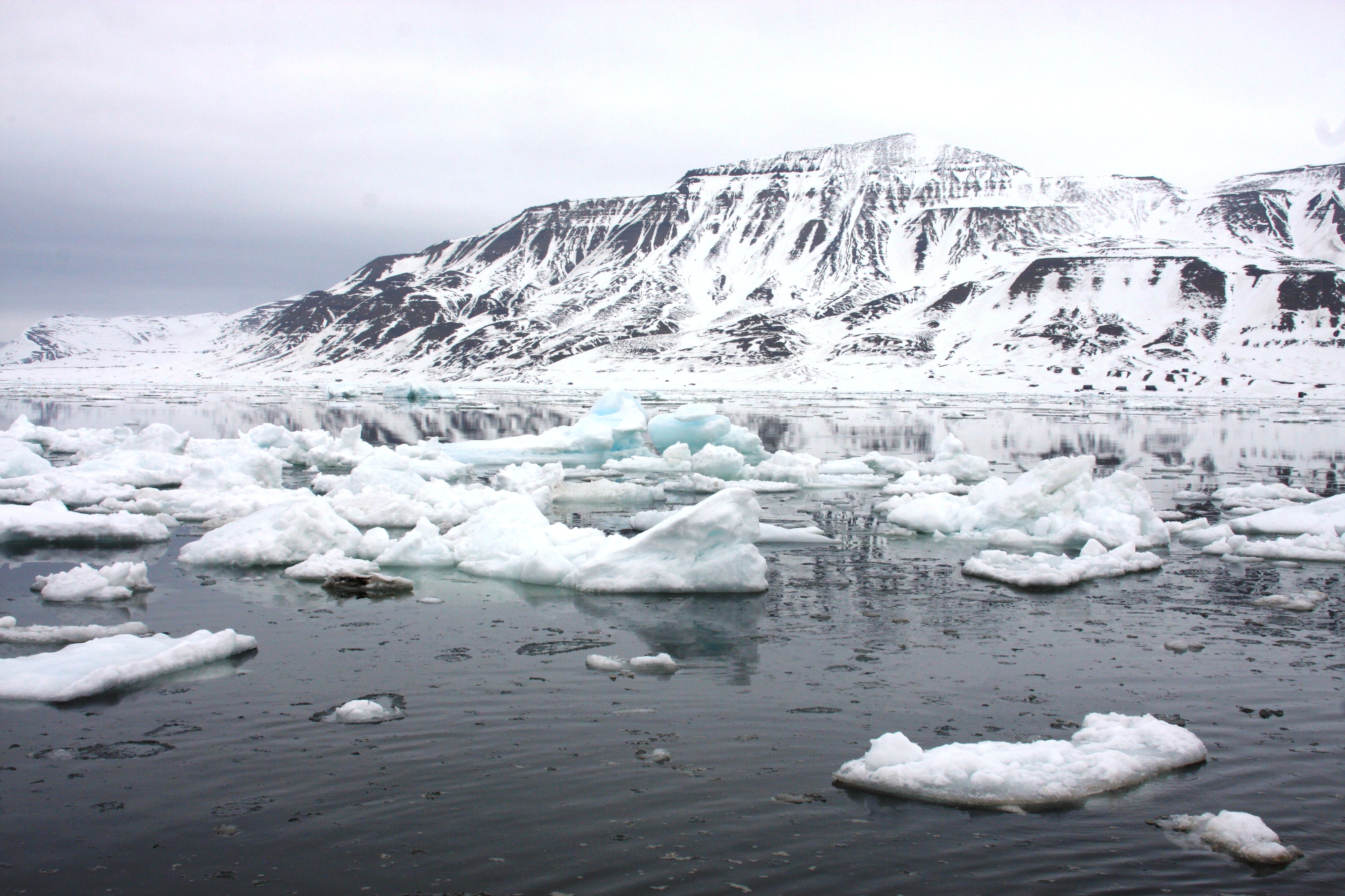 Advent Fiord with Mt Adventtoppen, seen from Longyearbyen